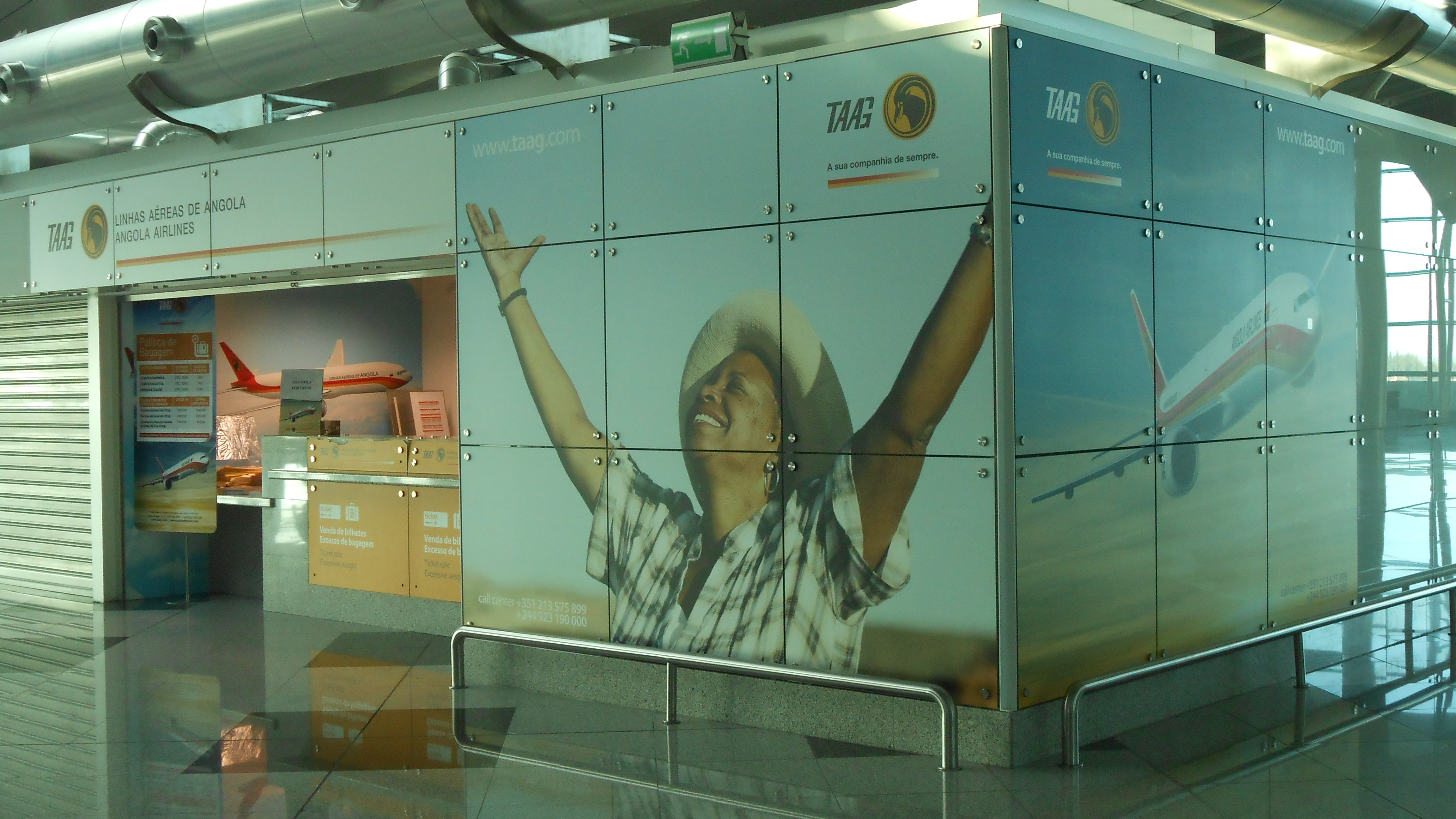 TAAG Angola Airlines office in the Oporto airport, Portugal, in november of 2015.